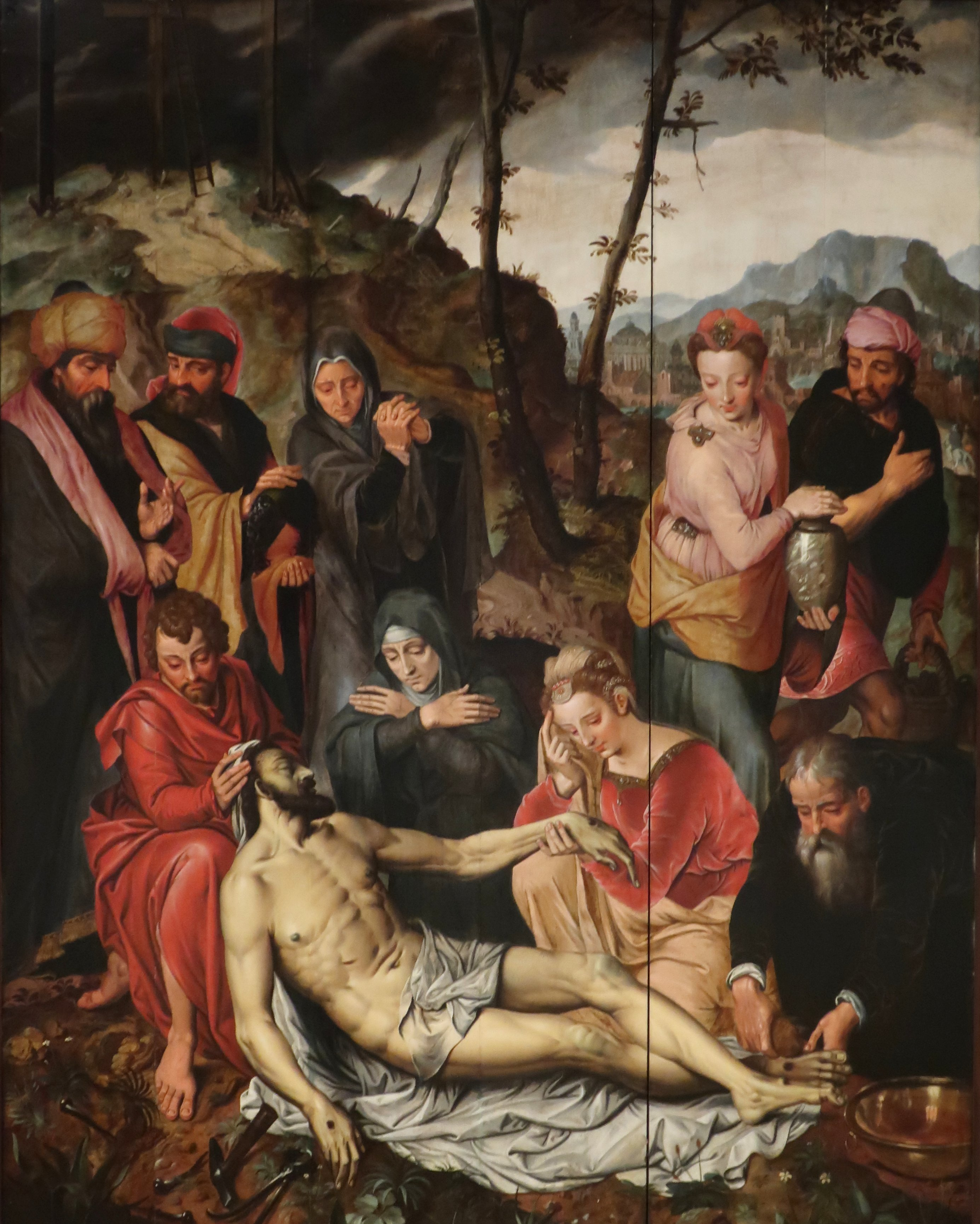 The Lamentation by Pieter Jansz. Pourbus, oil on panel, Schorr Collection